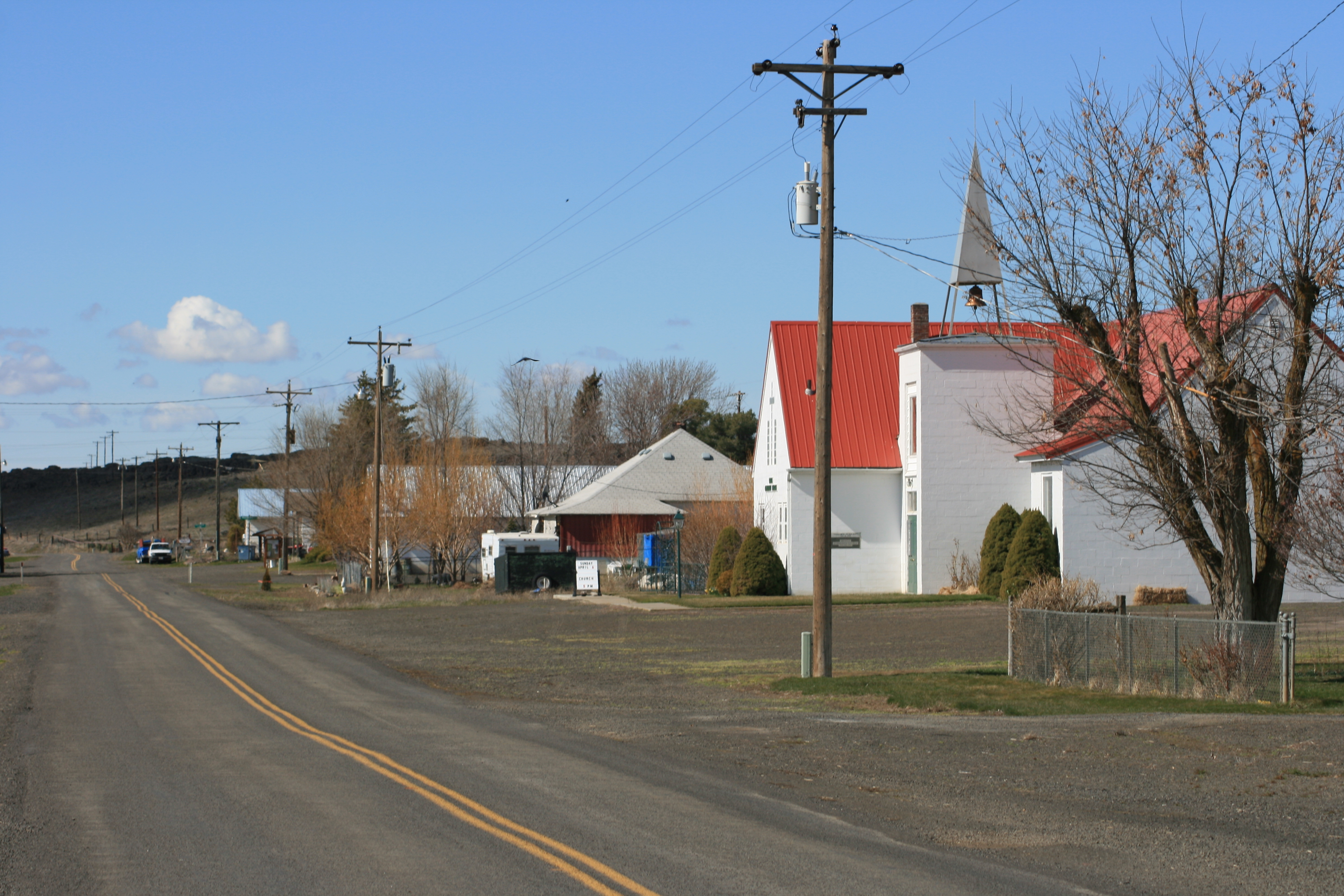 Photo taken by uploader from the East of Benge, Washington looking West. Amusingly, this town is listed as a ghost town on some websites - and they assert that Wikipedia is not to be trusted.